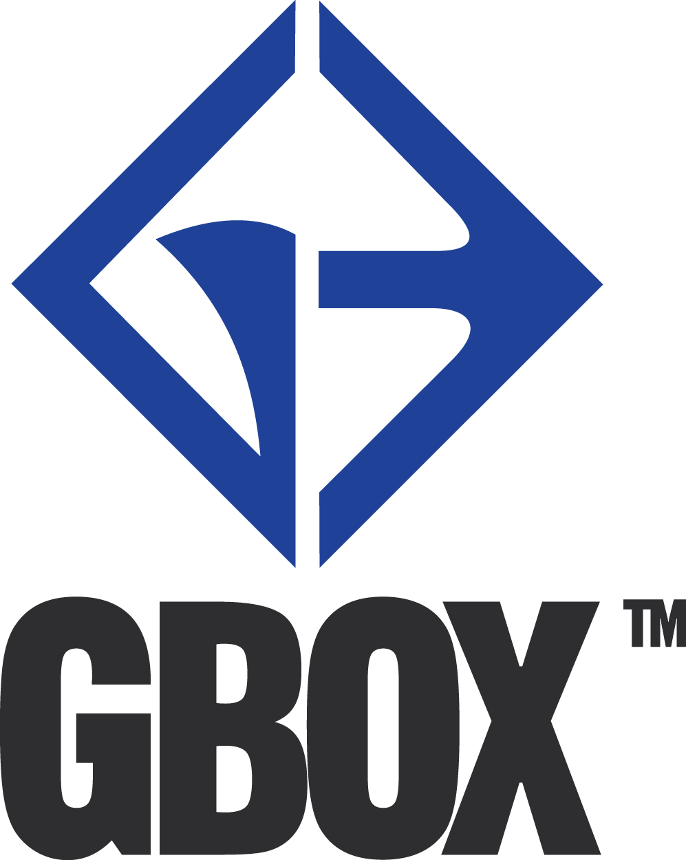 GBOX logo